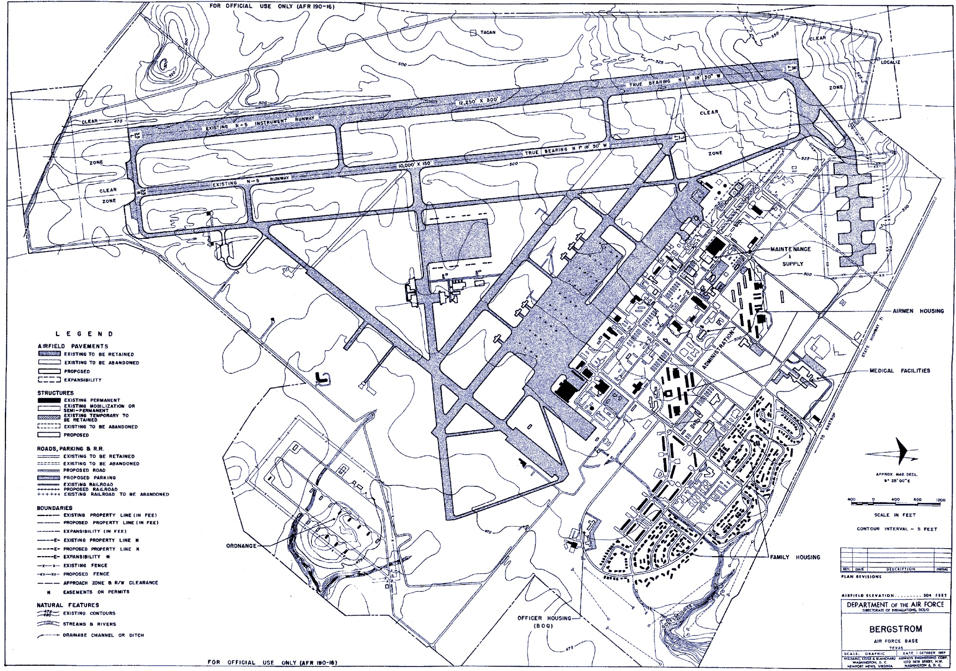 Bergstrom blueprint, 1957. Master Plan of 1957, Directorate of Installations, United States Department of Defense.